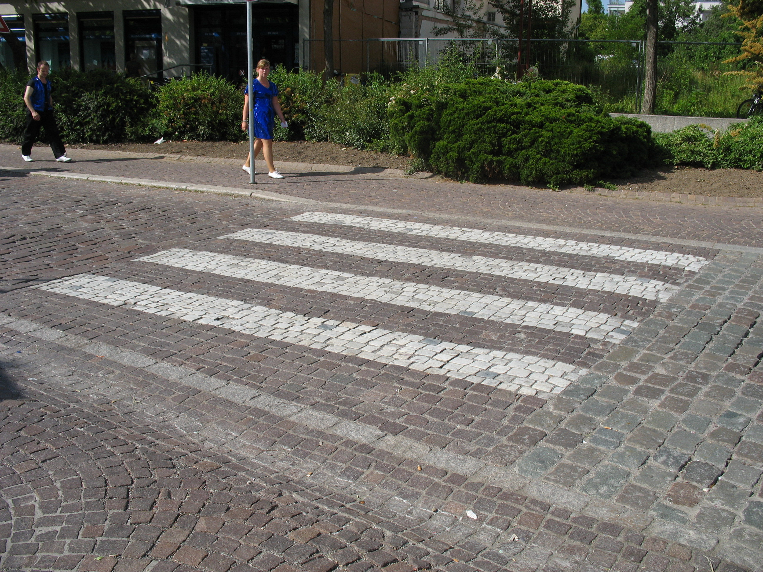 Famous zebra crossing made of marble in Sindelfingen, Baden-Württemberg, Germany